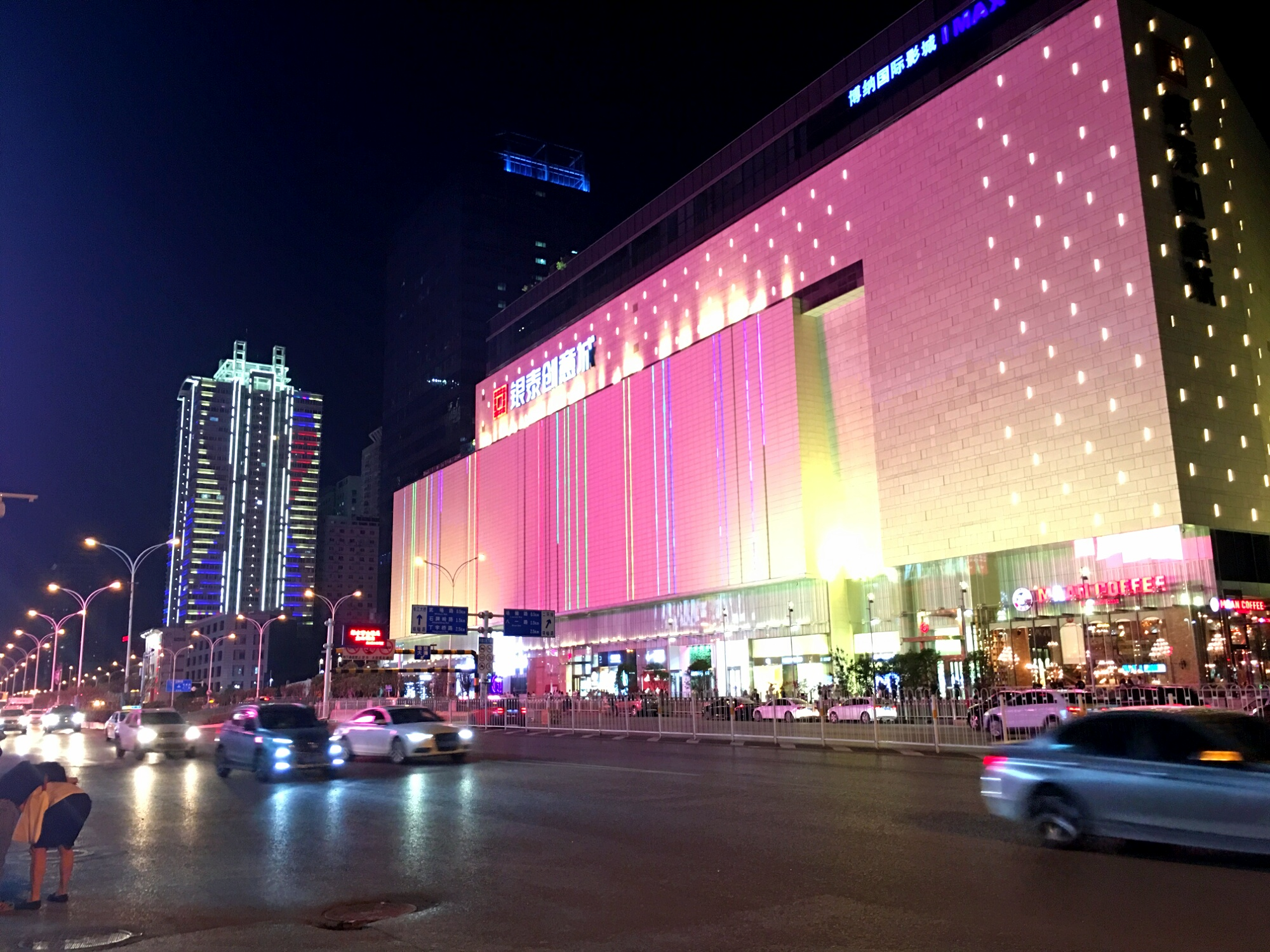 A night sight in front of a modern shopping mall